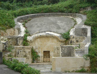 Okinawan grave, kamekobaka (turtle-back-tomb). Photo of my authorship.